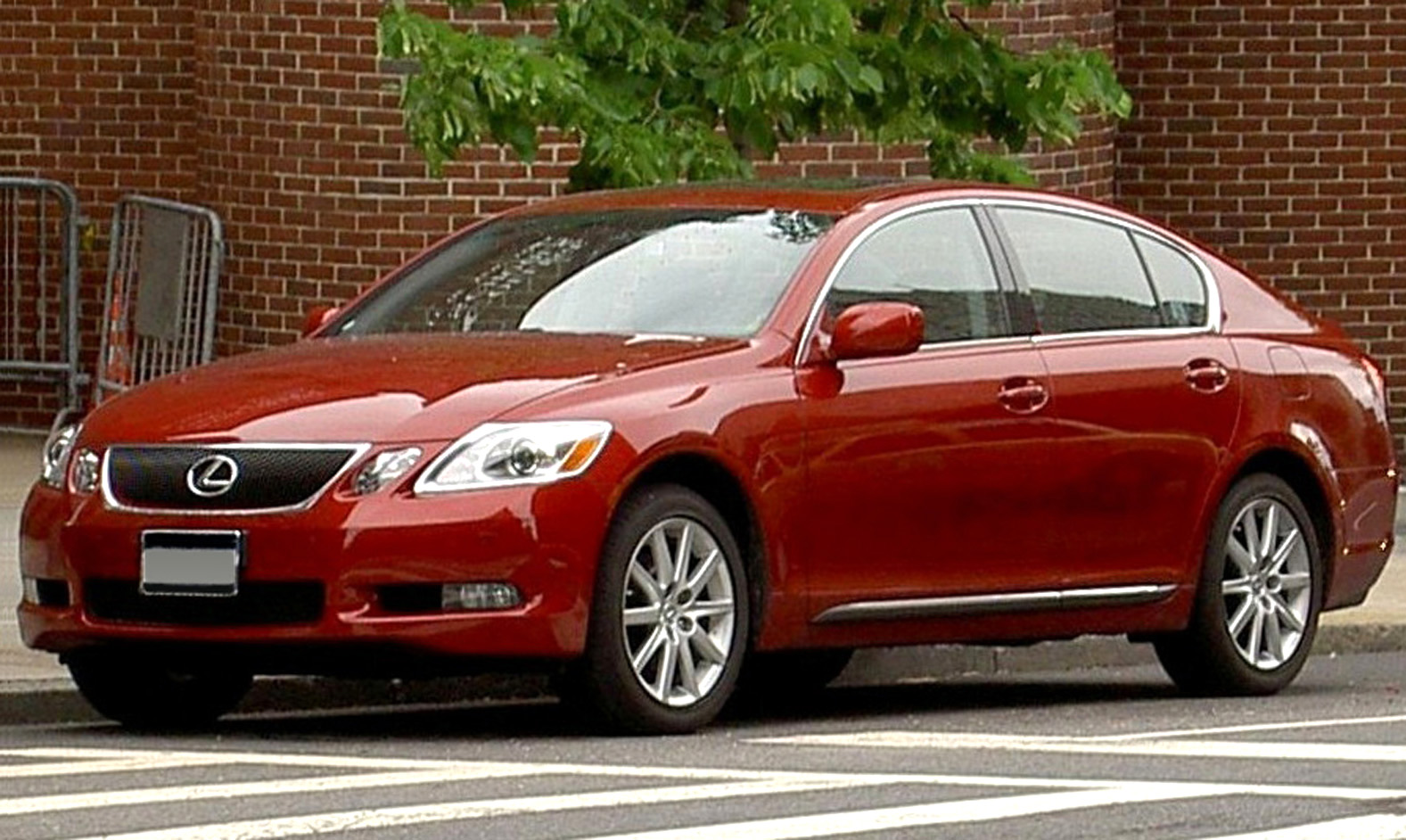 The third generation of Lexus GS, photographed in New York City